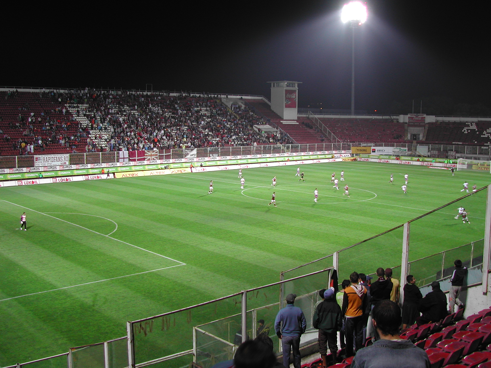 This picture shows the football ground Giuleşti-Valentin Stănescu. This ground is located in Bucharest, Romania and is the home ground of Rapid Bucureşti. The picture is taken during the Divizia A match of Rapid Bucureşti vs. FC Argeş Piteşti.